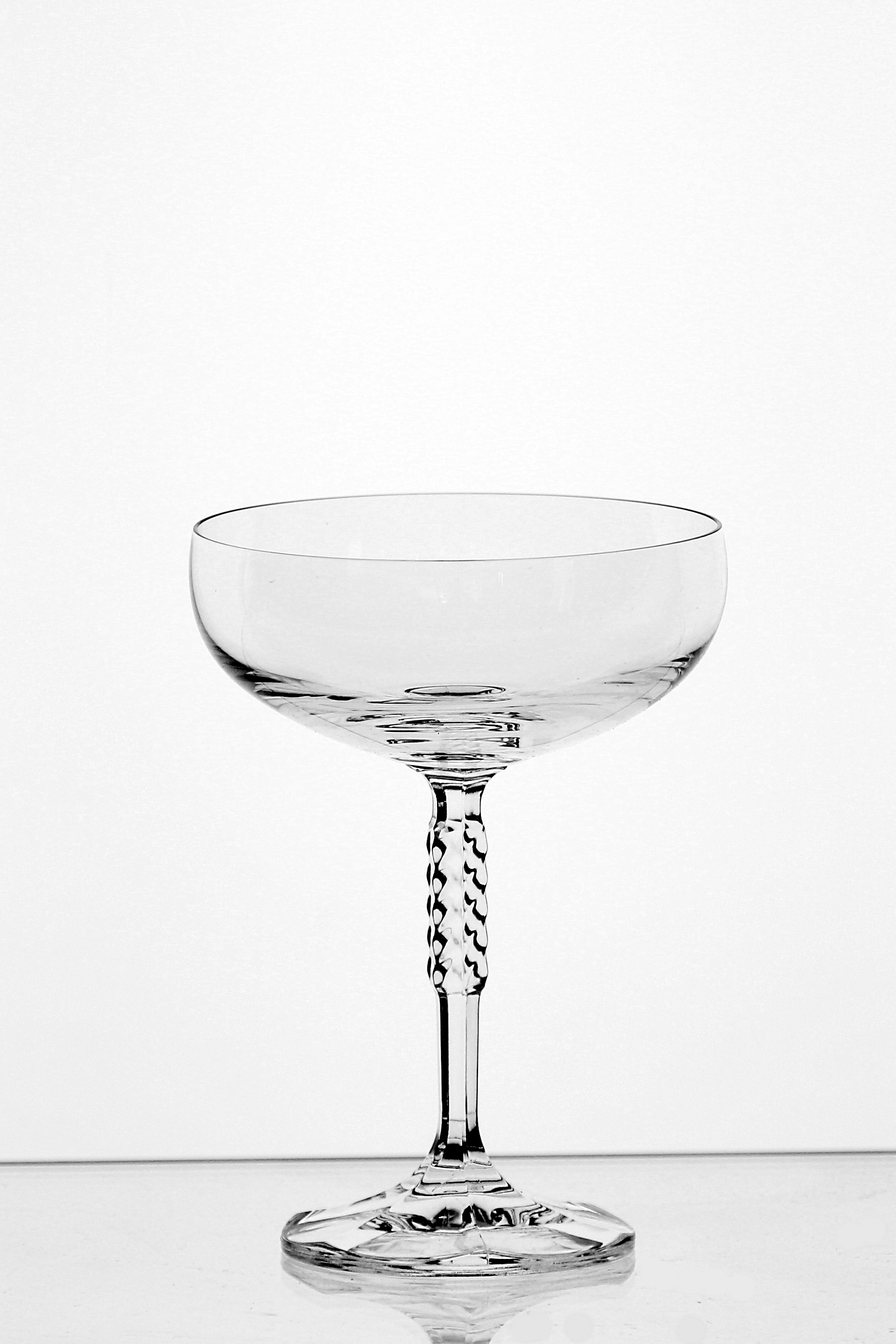 Cocktail glass.